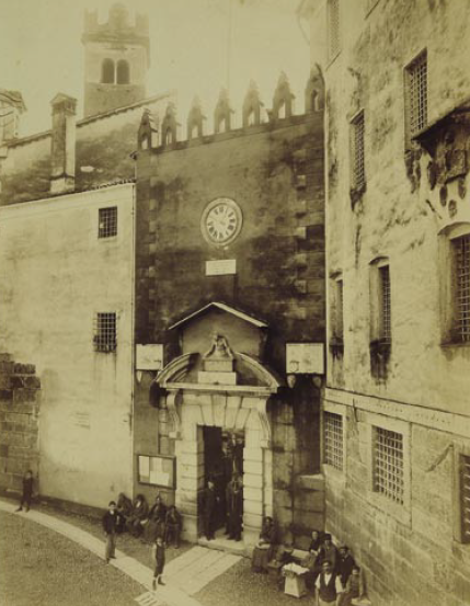 Piazza Monte in Verona. It was owned by Monte di Pietà di Verona and was the headquarters of Cassa di Risparmio di Verona, Vicenza, Belluno e Ancona from 1993 to 1999